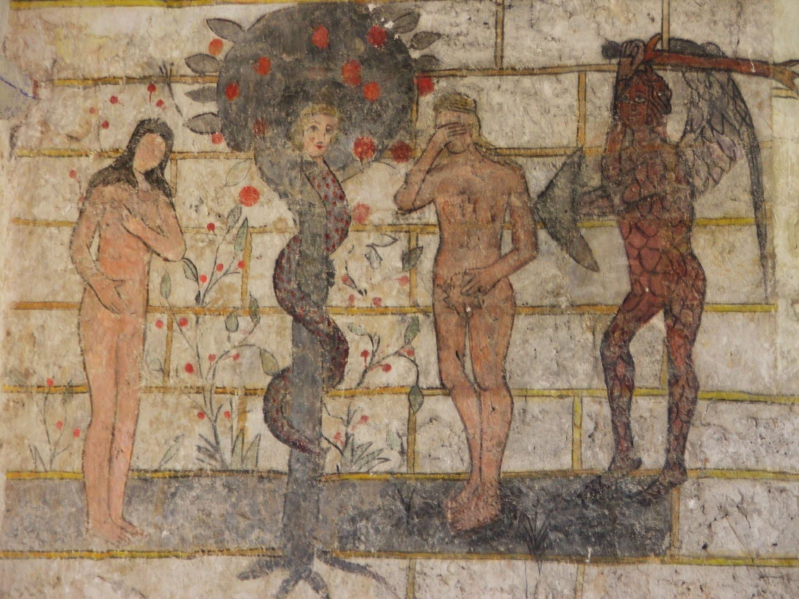 Mural paintings in Church of San Esteban, Ribera de Valderejo, Araba, Basque Country.